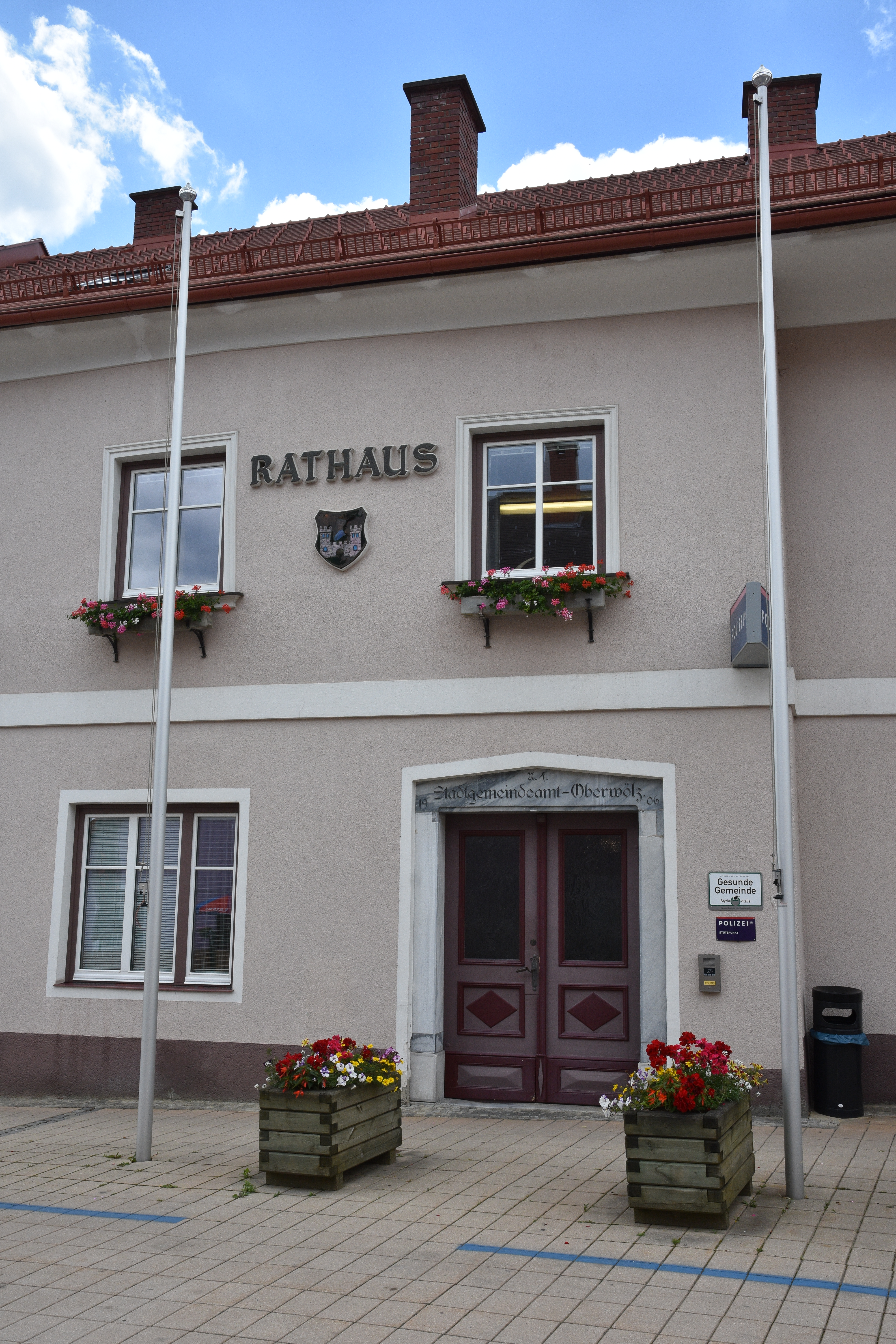 Rathaus Oberwölz